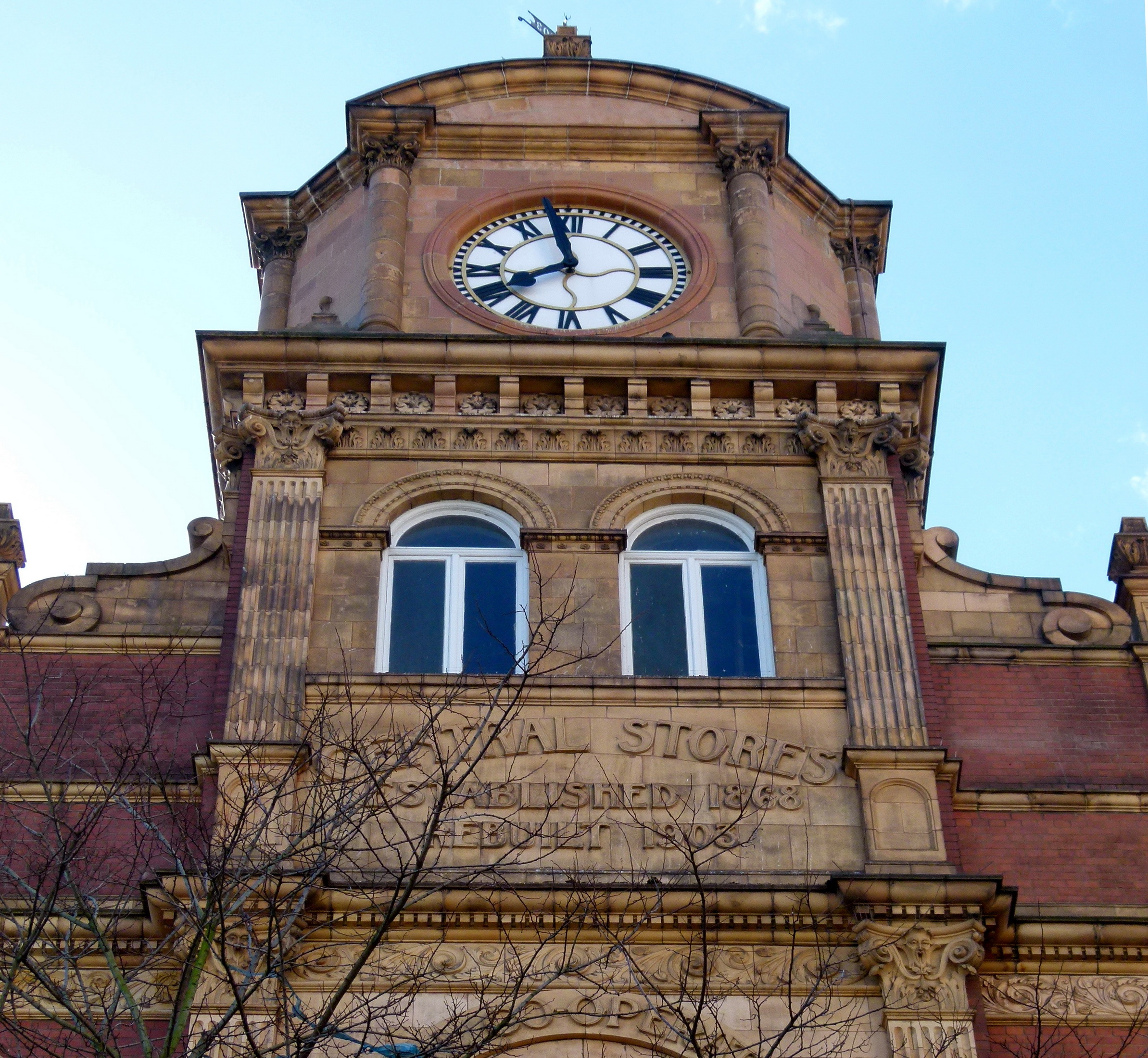 Detail of main façade of former RACS Central Stores in Powis Street, Woolwich, South East London, UK.